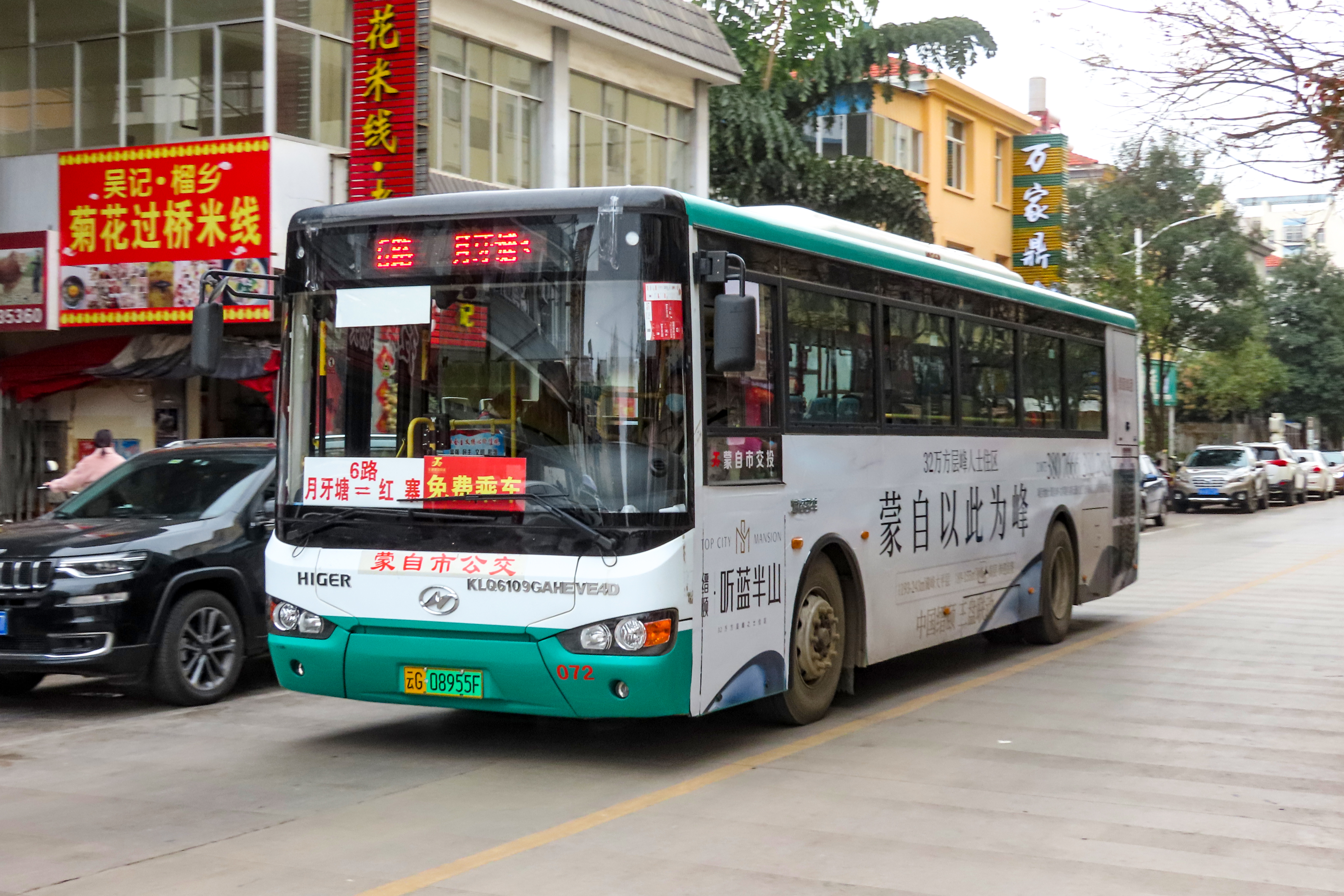 In a Kunming-like livery.